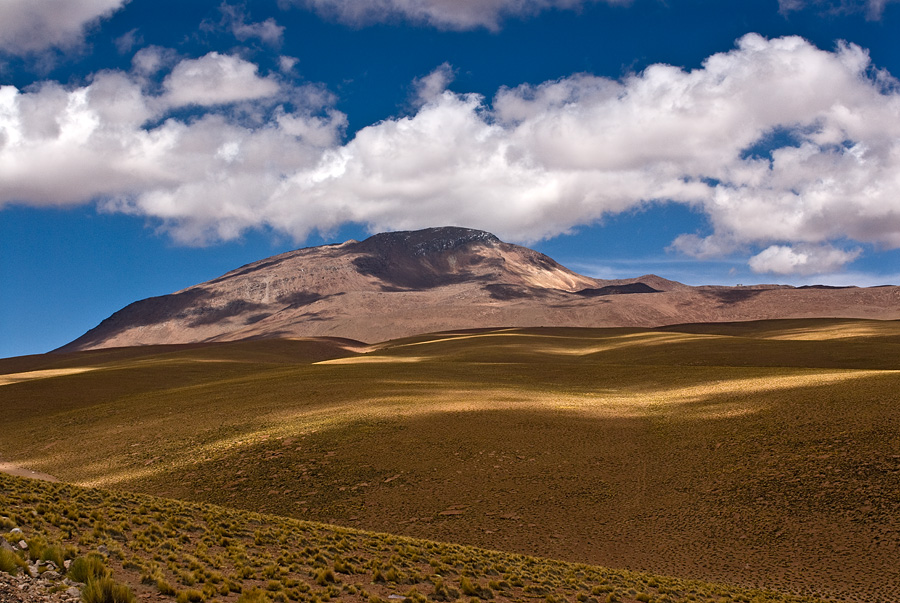 The Cerro Toco stratovolcano 5,604 m (18,386 ft) lies at the northern end of the Purico Complex pyroclastic shield.